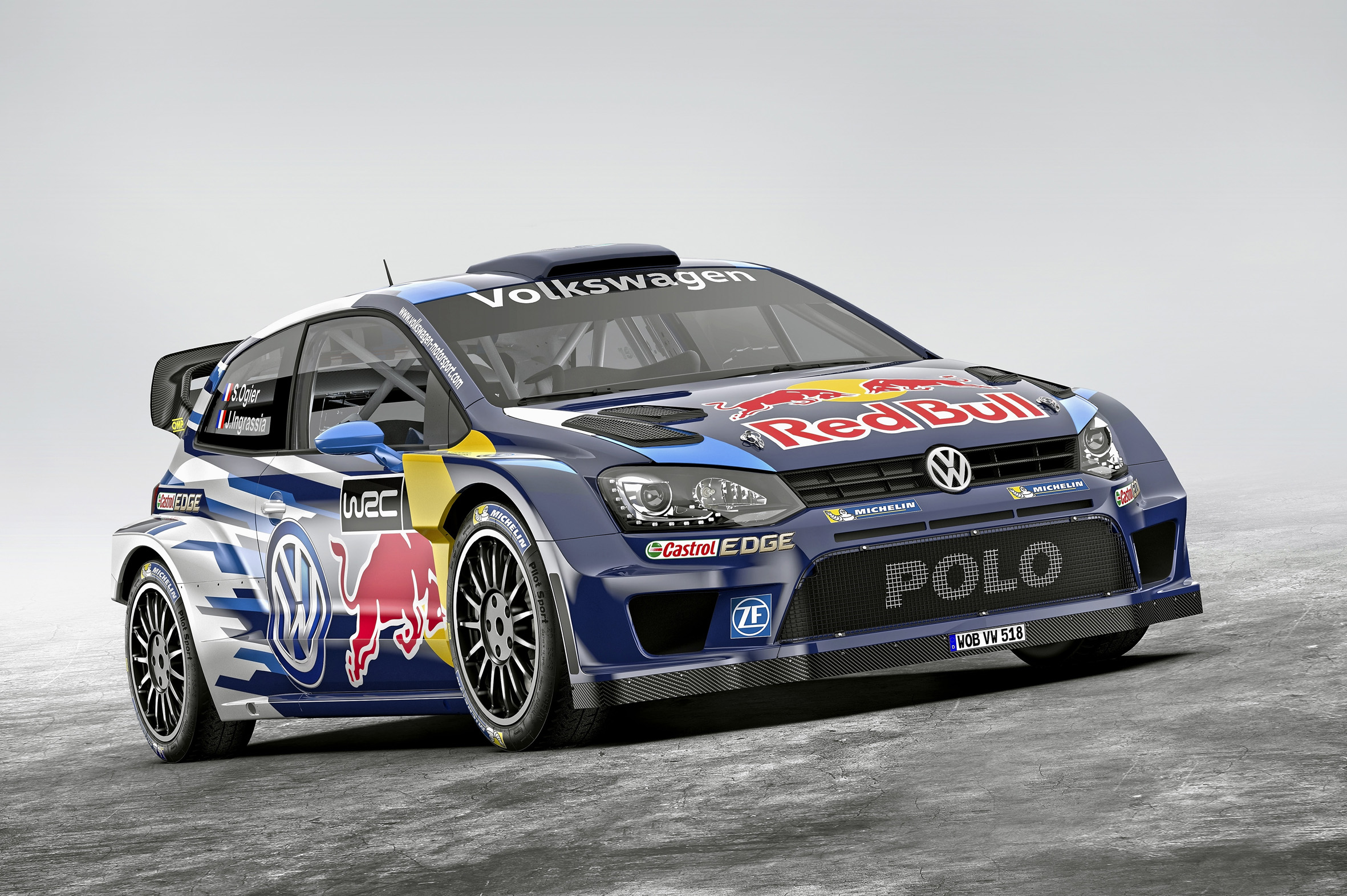 The new 2015 Volkswagen Polo R World Rally Car. Set to compete in the 2015 World Rally Championship.